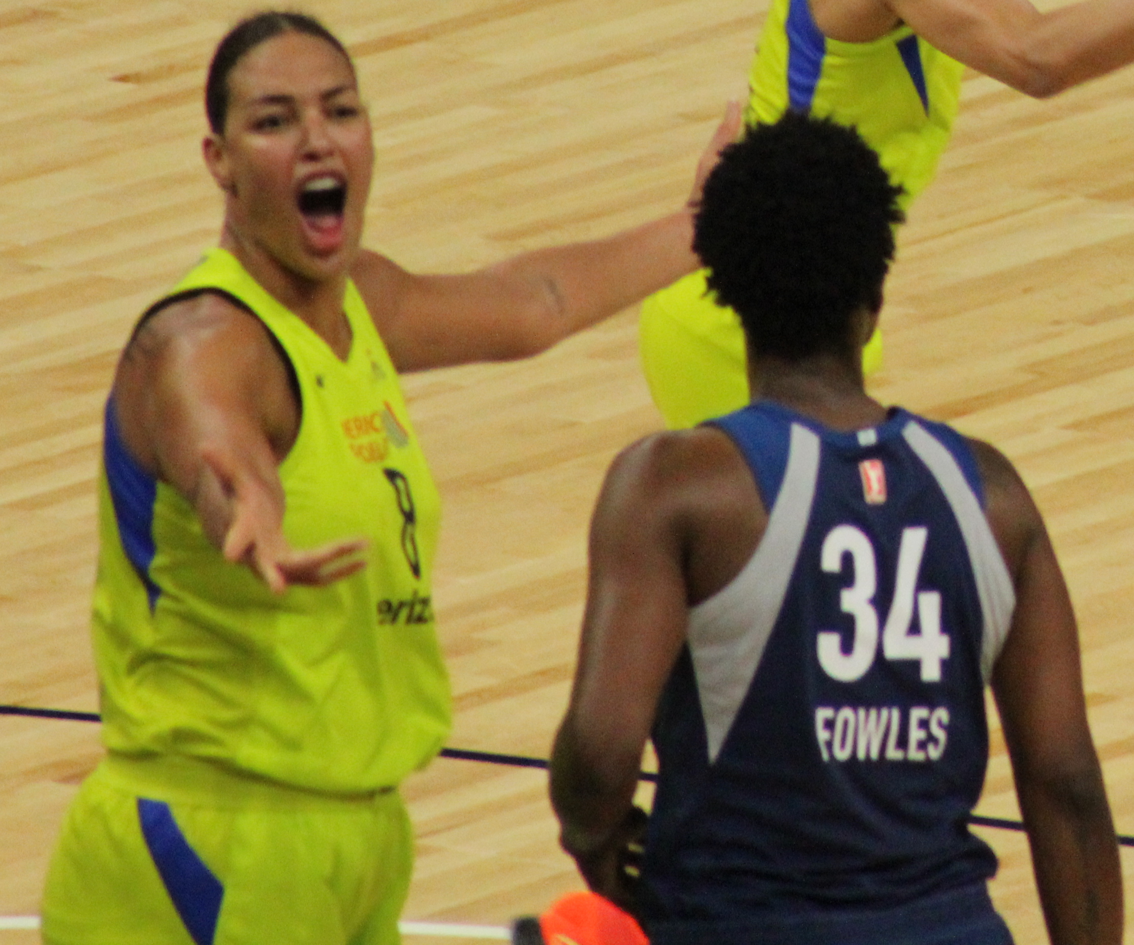 Liz Cambage of the Dallas Wings celebrates her defense of Sylvia Fowles of the Minnesota Lynx in 2018